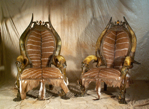 Aby & Gael, Armchairs. Wood, bronzes, skin of Nyala, horns of zebu and of ram